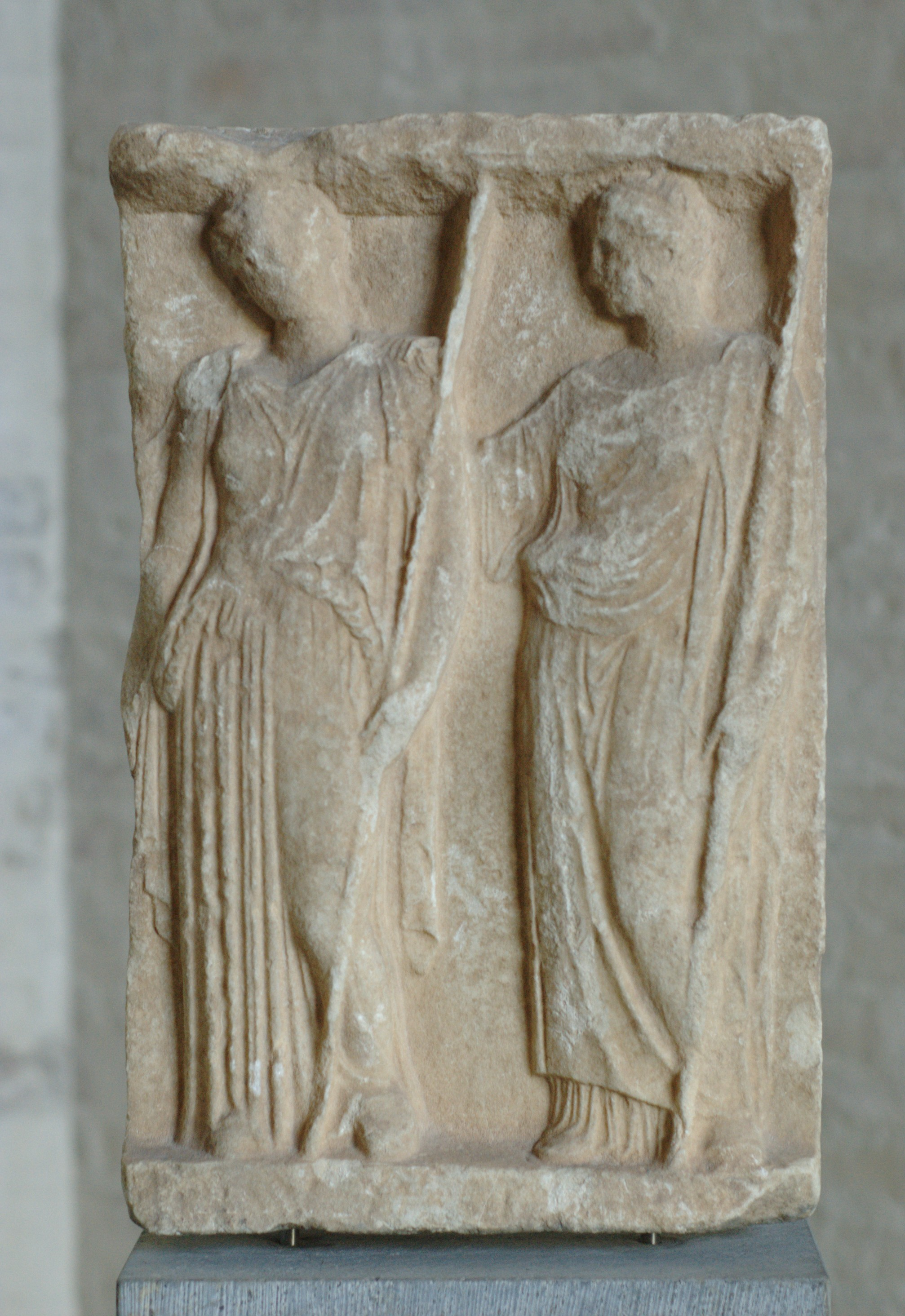 Demeter (with sceptre) and Kore (with torch), fragment of a votive relief, marble. From Rhamnus in Attique (probably from the Nemesis Temple), ca. 420–410 BC.